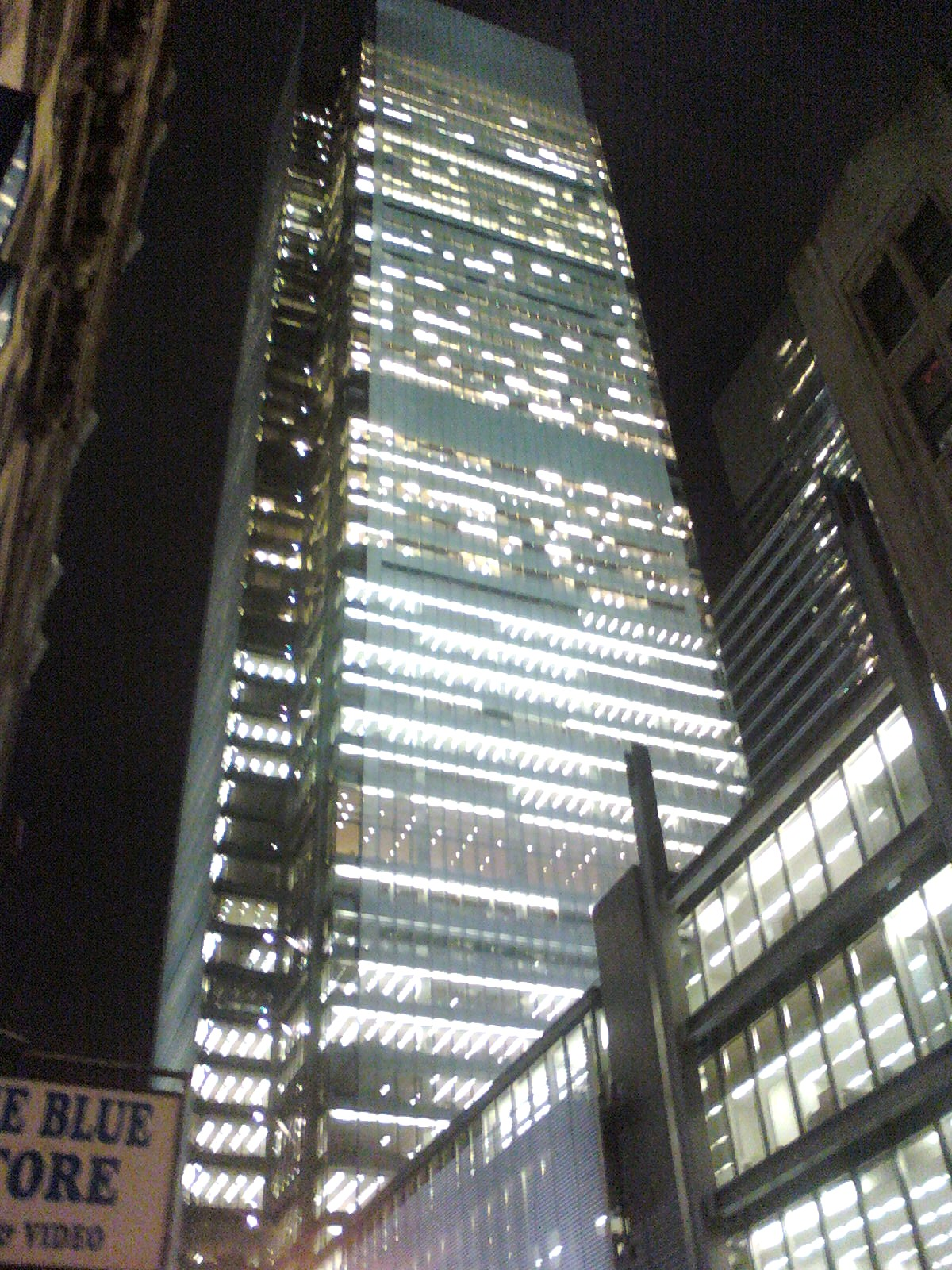 Rear of the New York Times Building